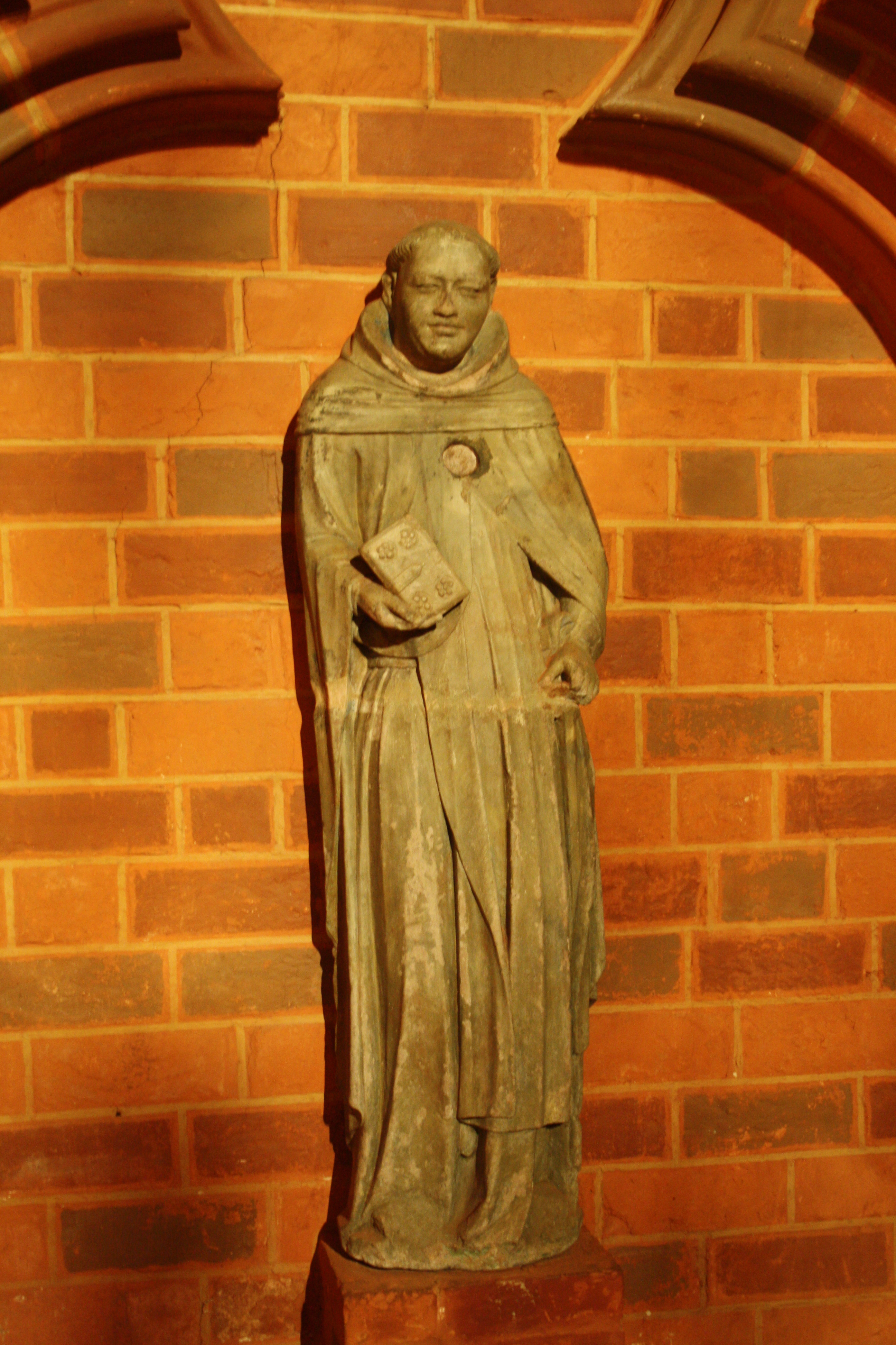 Statue of Prior Wichmann von Arnstein at St Trinitatis Minster, Neuruppin, Germany.